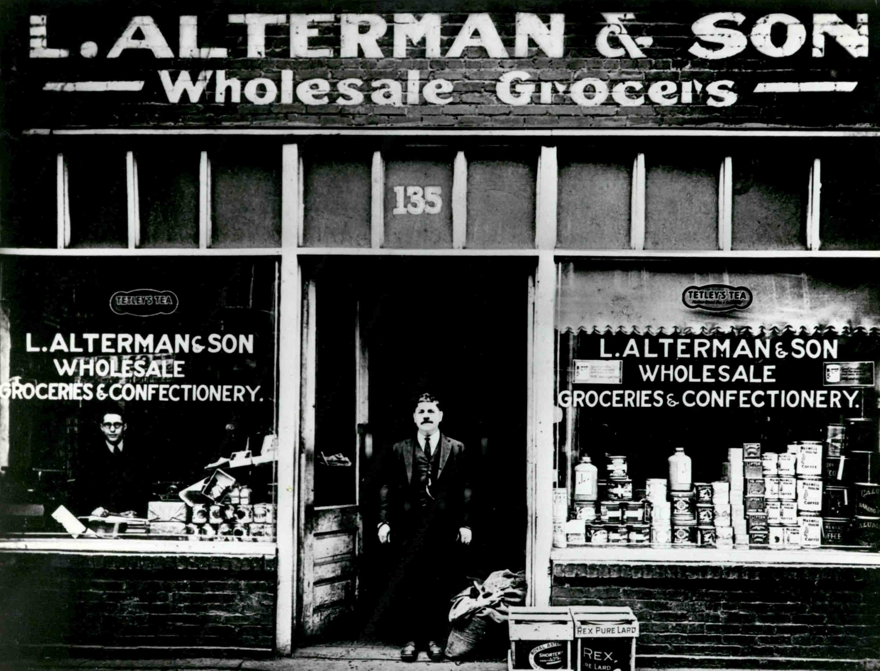 Image from archives at The Breman Museum